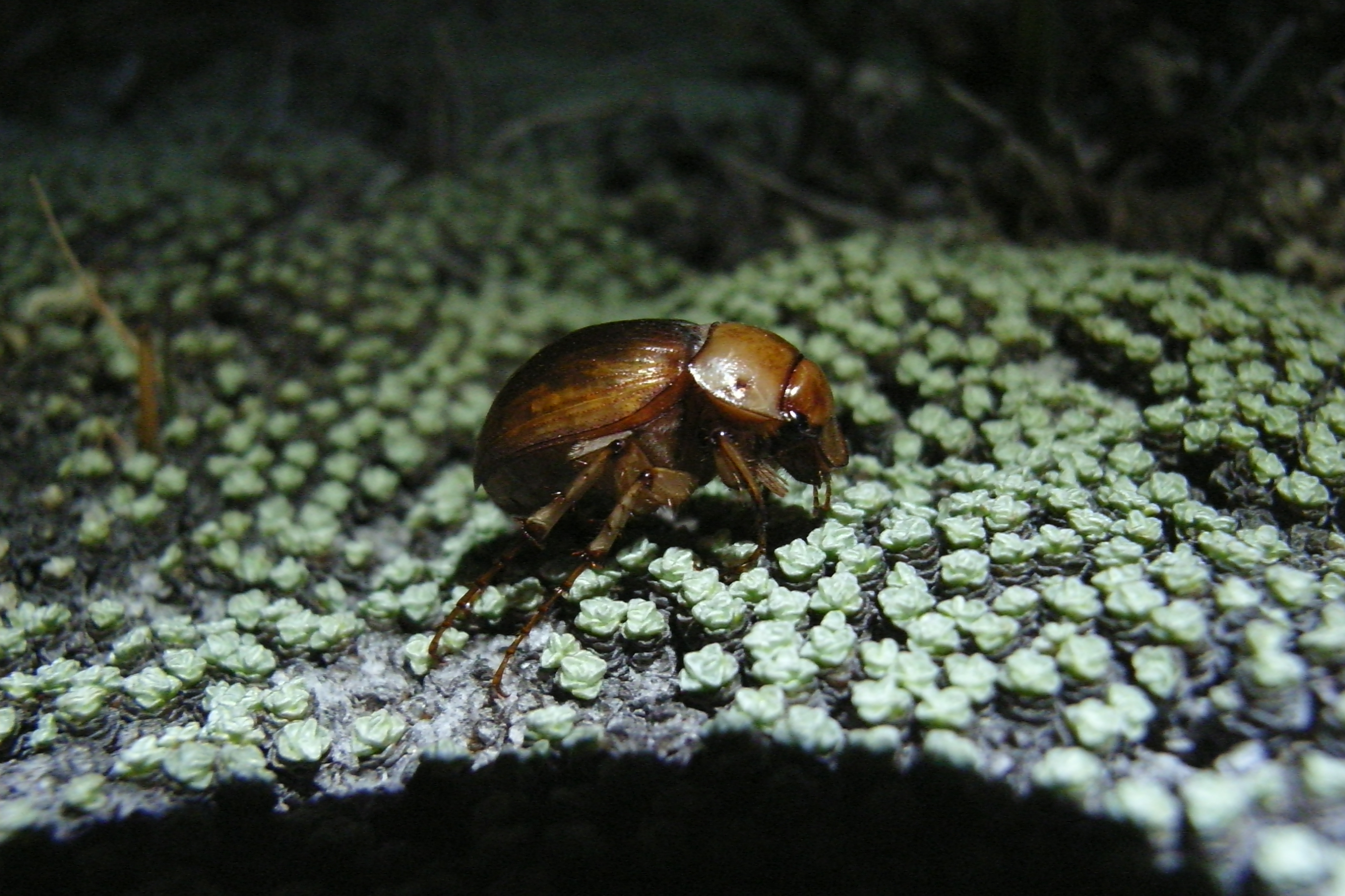 A male Cromwell chafer beetle (Prodontria lewisii) on Raoulia australis, photographed at night on the Cromwell Chafer Beetle Nature Reserve